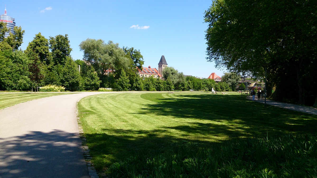 Paradiespark in der Nähe des Paradiesbahnhofs